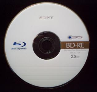 A photo of a blank rewritable Blu-ray disc. These discs will not play in most commercial Blu-ray disk players, only on personal computers.